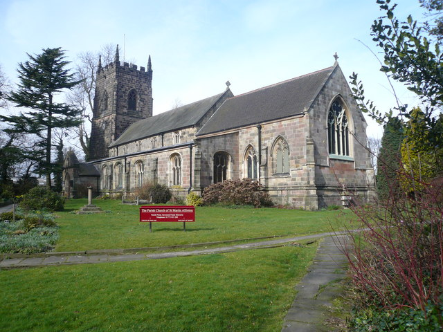 Alfreton - The Parish Church of St. Martin